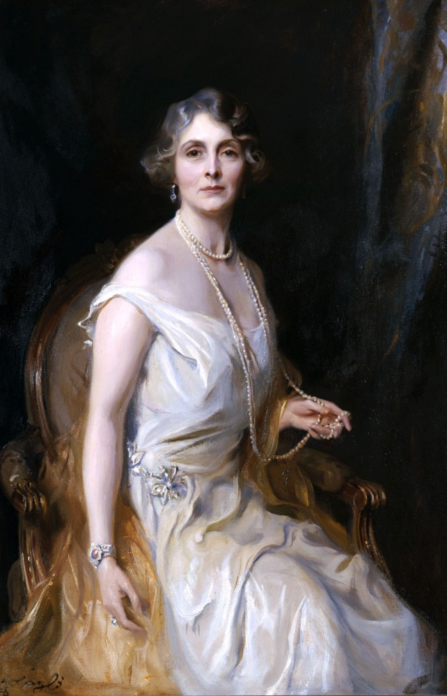 Portrait of Princess Alice, Countess of Athlone (1883-1981)